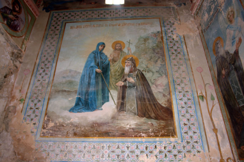 Shio-Mgvime Monastery. The 19th-century murals